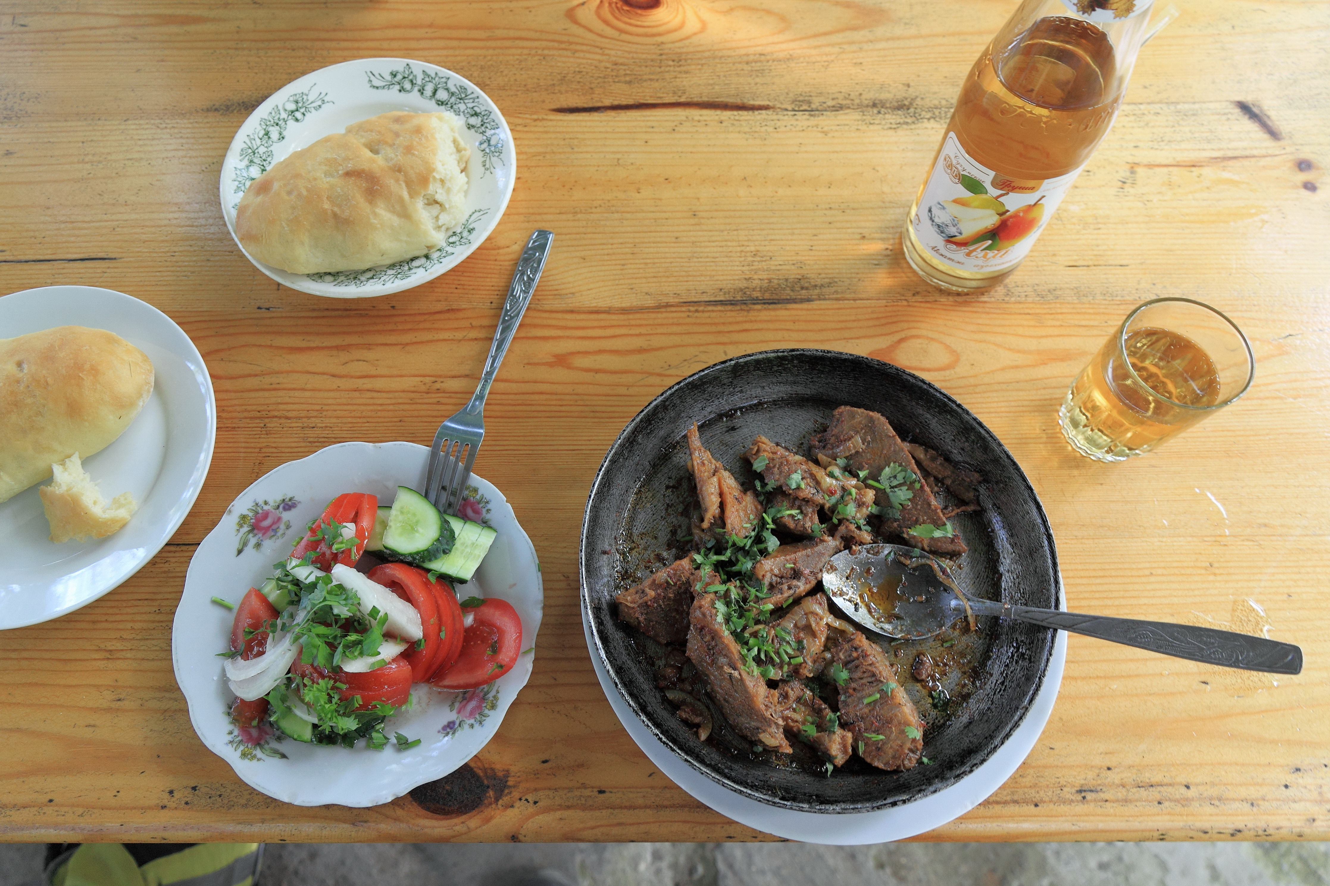 Abkhazian meal: Abkhazian lamb, salad, bread and pear lemonade. Sukhumi, Abkhazia.